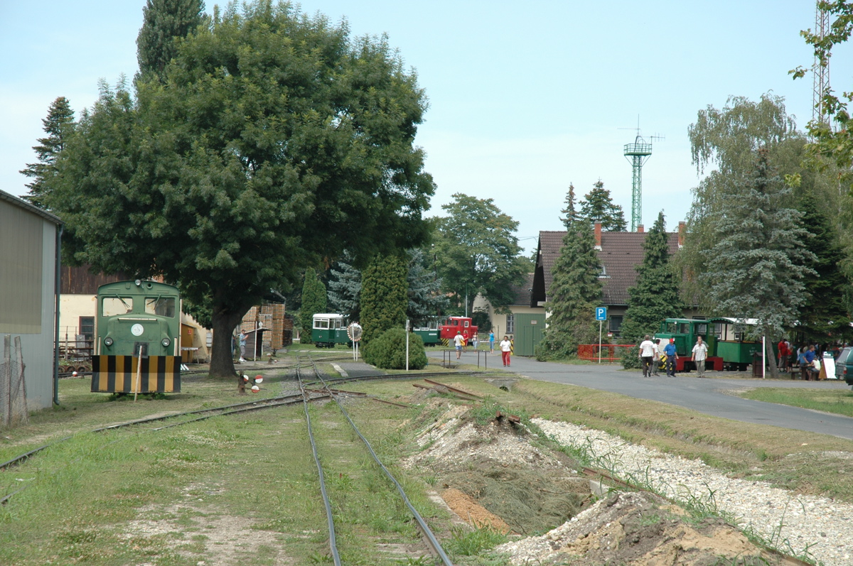 Csömödér narrow gauge railway station (Zala county, Hungary)